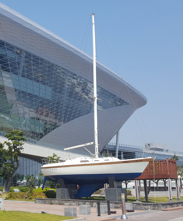 Sailboat on which Kang Dong-suk sailed around the world